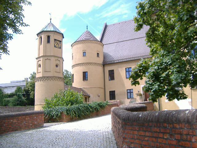 Wertingen castle, seen from south